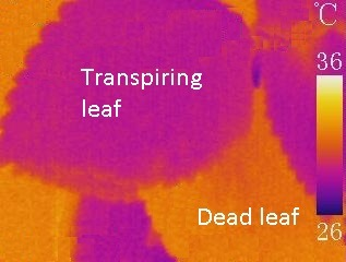 Thermal image of a tomato plant (Solanum lycopersicum). The image compares a living, transpiring leaf (top) to a dead leaf (bottom). The cooling effect of transpiration is seen as darker colours in the living leaf compared to the dead leaf.